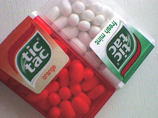 fresh mint and orange Tic Tac packets